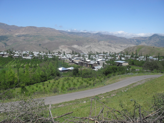 پیرکوه